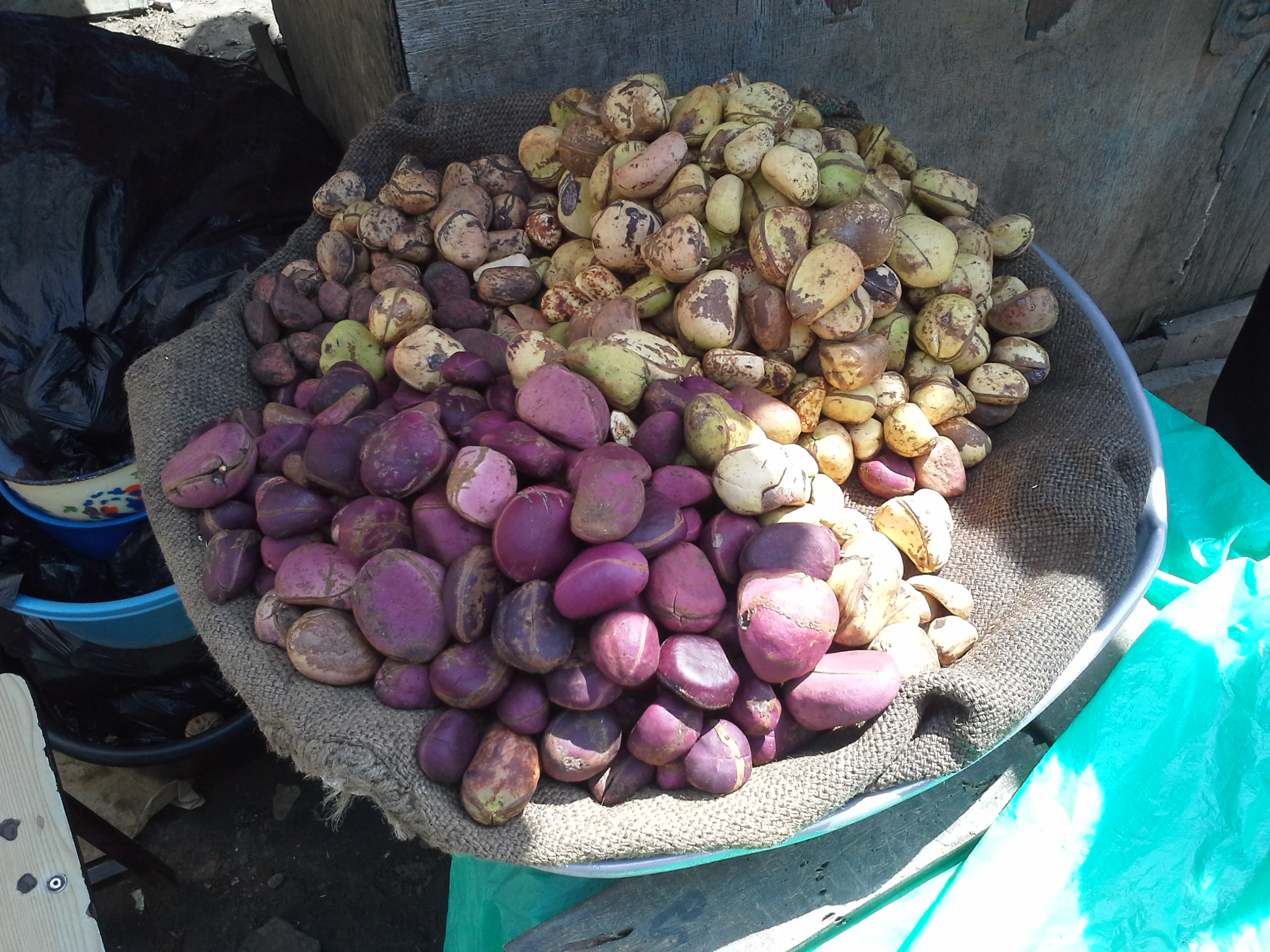 Cola nut in a pan for sale This is an image of food from Ghana